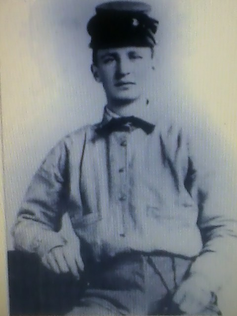 Image of Pvt. McKensie Dunlop in his fatigue uniform, of Co. C, Petersburg Greys, 12th Virginia Infantry, in 1861.